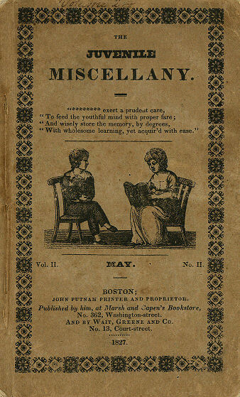 Cover, 1847